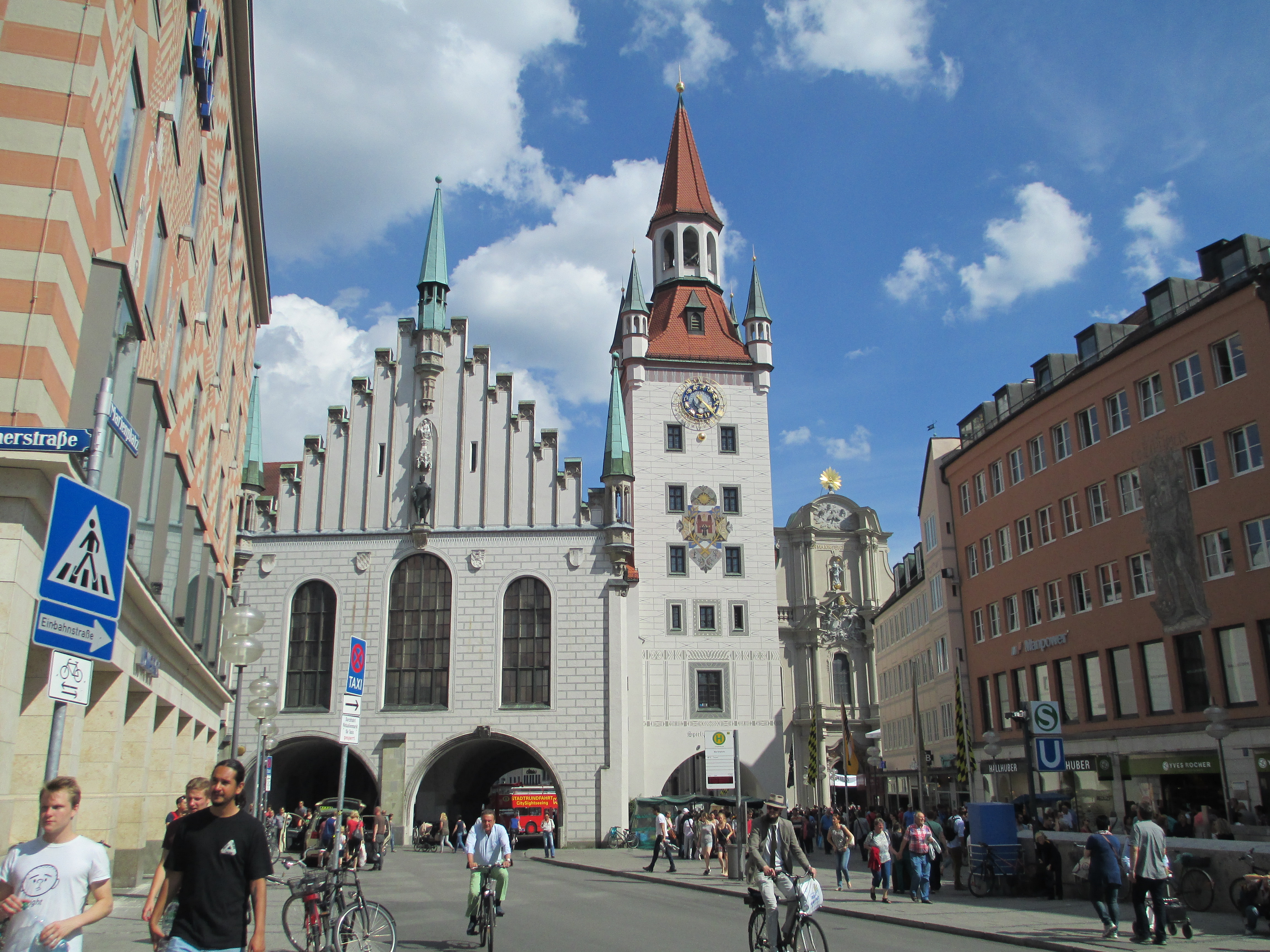 Altes Rathaus (München)